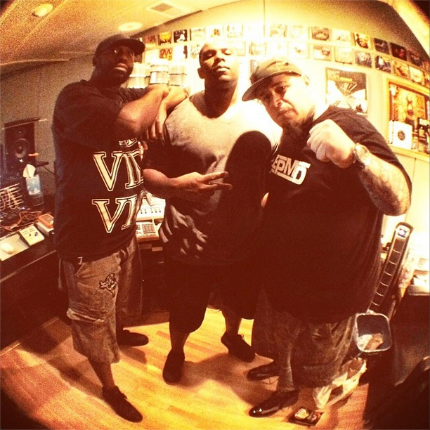 Malik B., Lawrence Arnell, Vinnie Paz pictured in August 2014